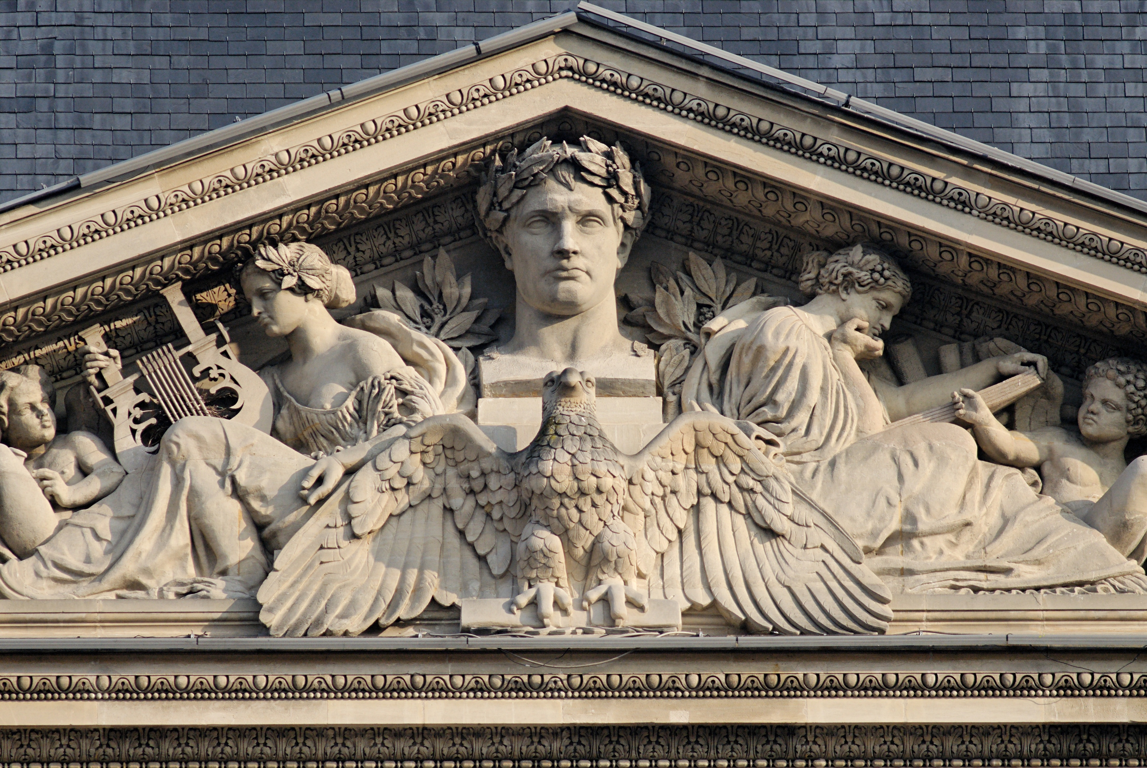 Bust of Napoléon I by Antoine-Louis Barye overlooking History and Arts by Pierre Simart. Stone, before 1857